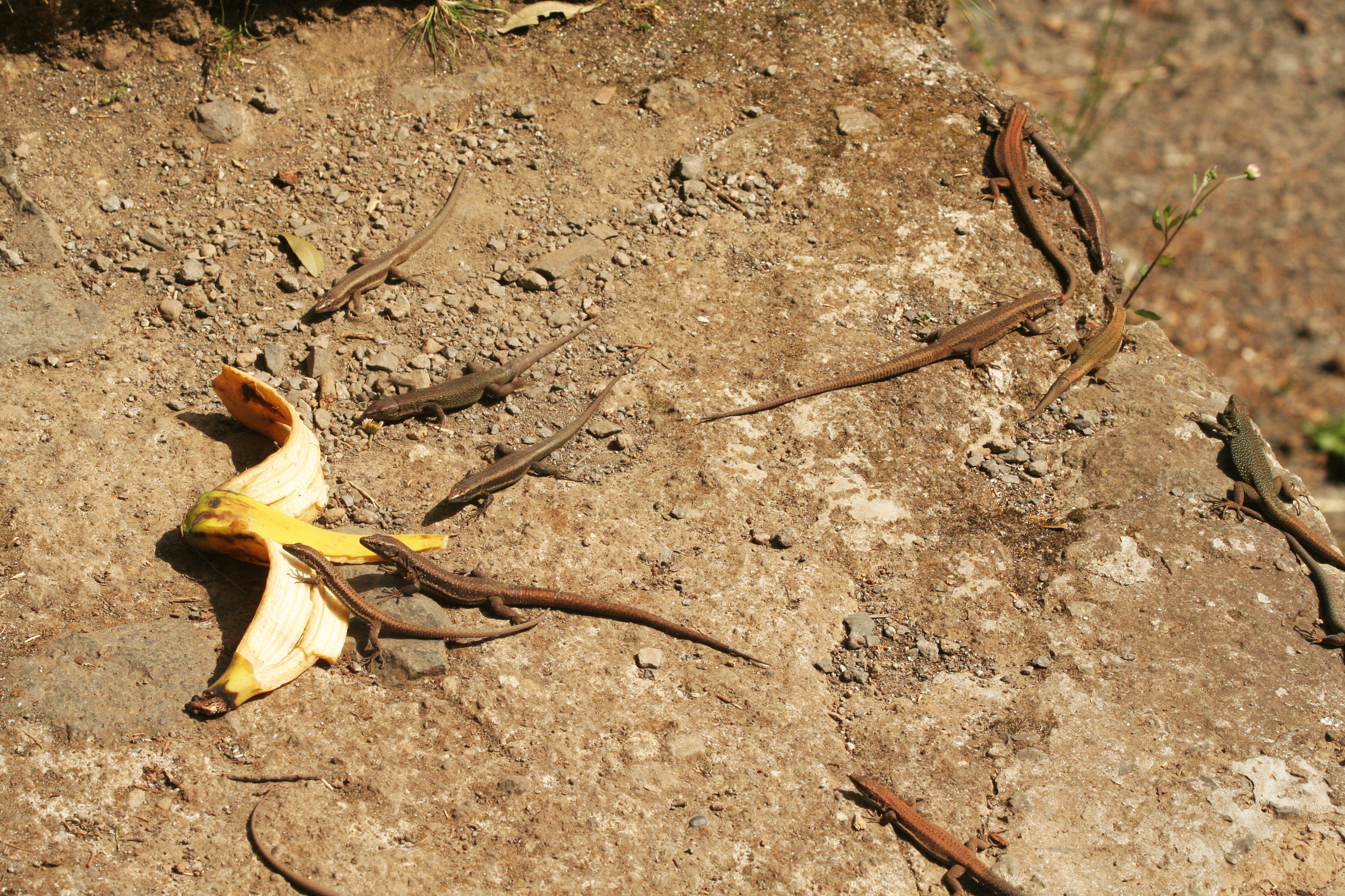 Madeira wall lizards (Teira dugesii), attracted by a banana peel (Madeira, Portugal, Levada do Norte near Encumeada Col)